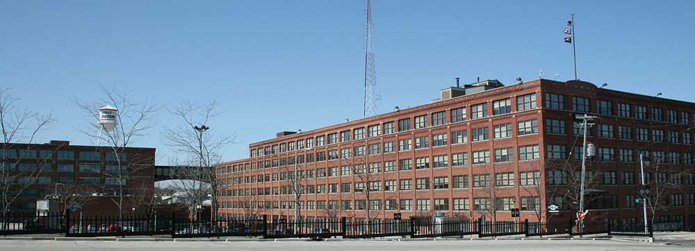 Harley-Davidson company offices. On the National Register of Historic Places as the Harley-Davidson Motorcycle Factory Building, Milwaukee, Wisconsin.